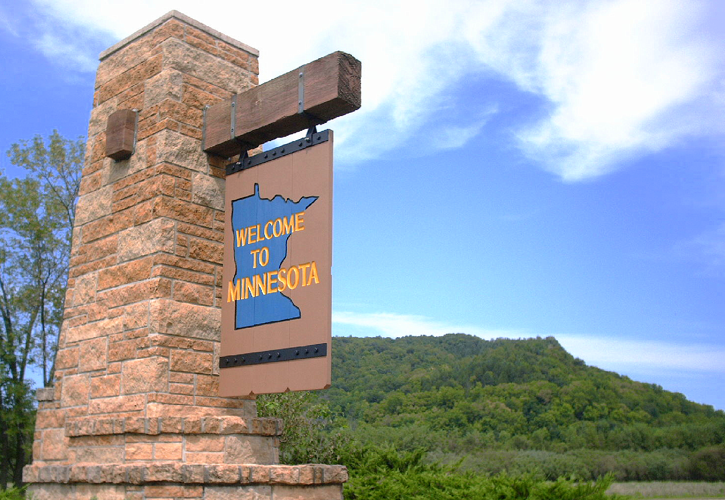 Photo I took in 2006 of the Minnesota welcome sign in the southeasternmost corner of the state at New Albin, Iowa. CC & GFDL.